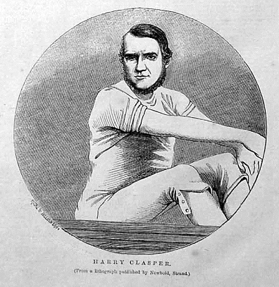 wood engraving entitled Harry Clasper